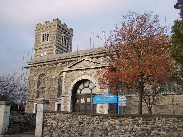 St. Nicholas Church, Strood On High Street. In parish of St Nicholas with St Mary. Currently under repair, hence scaffolding.